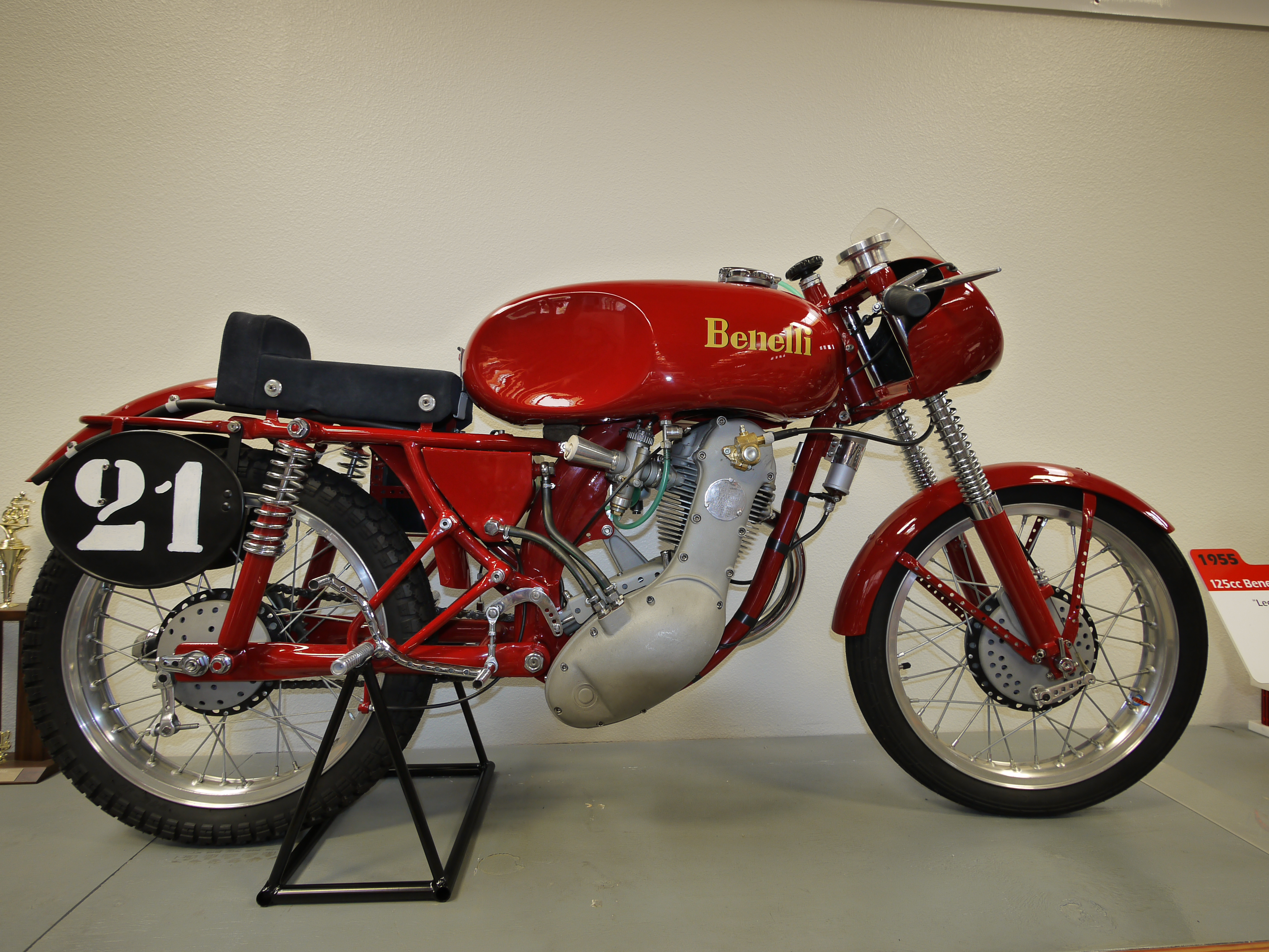 Benelli 125 Leoncino Corsa, 1955